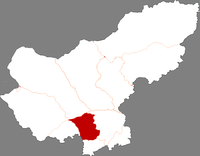 Locator map of Plain and Bordered White Banner in Xilingol League, Inner Mongolia, China